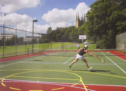 Tennis courts, St John's College, University of Sydney. author: John Polding